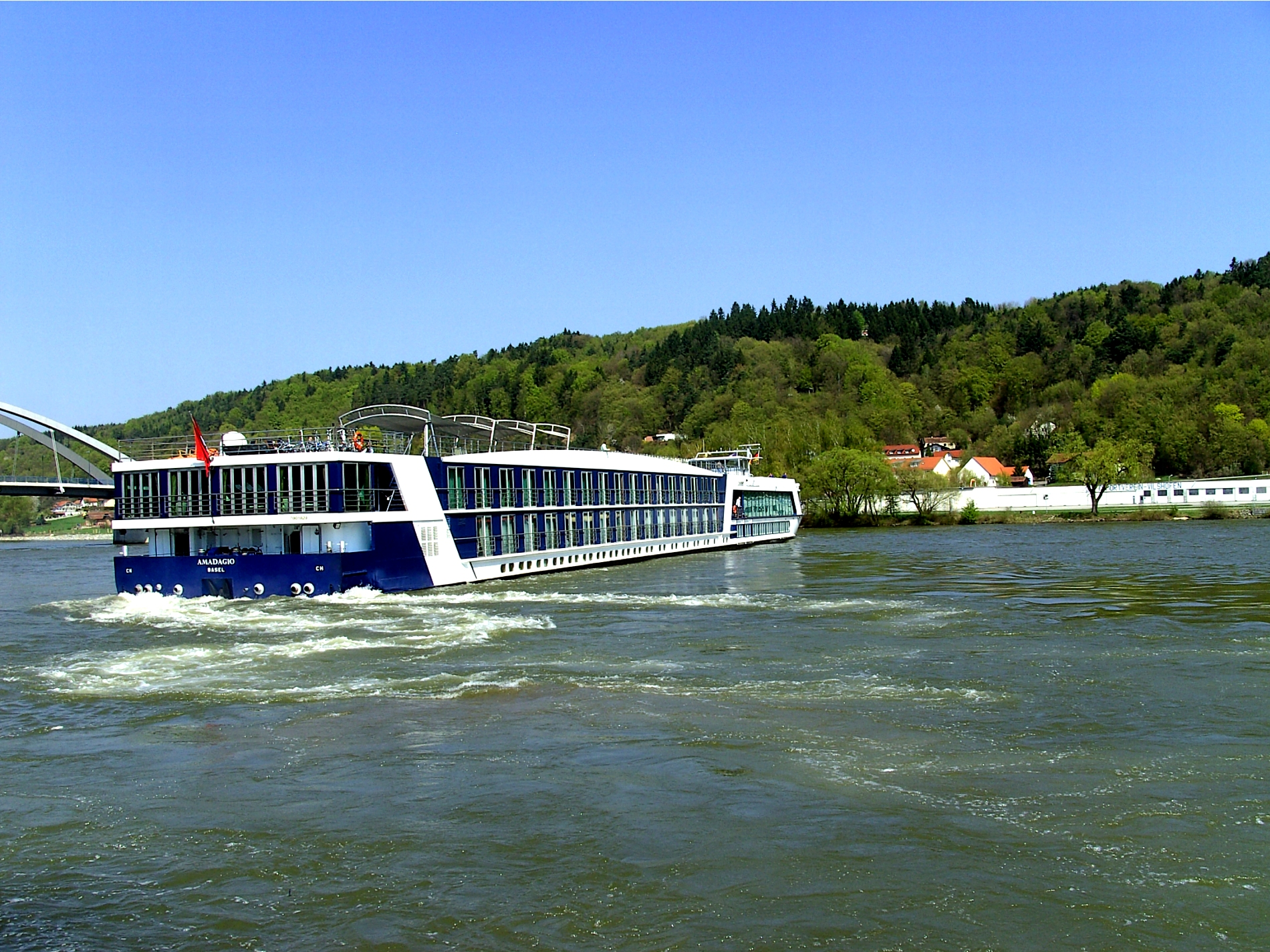 A River-Cruise ship on the Danube is turning-over in Vilshofen a.d. Donau, Bavaria, Germany.